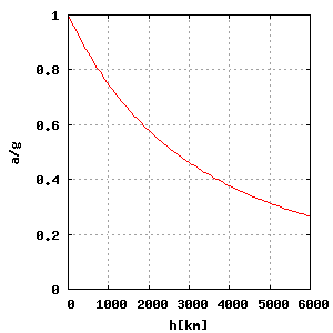 Gravitation acceleration